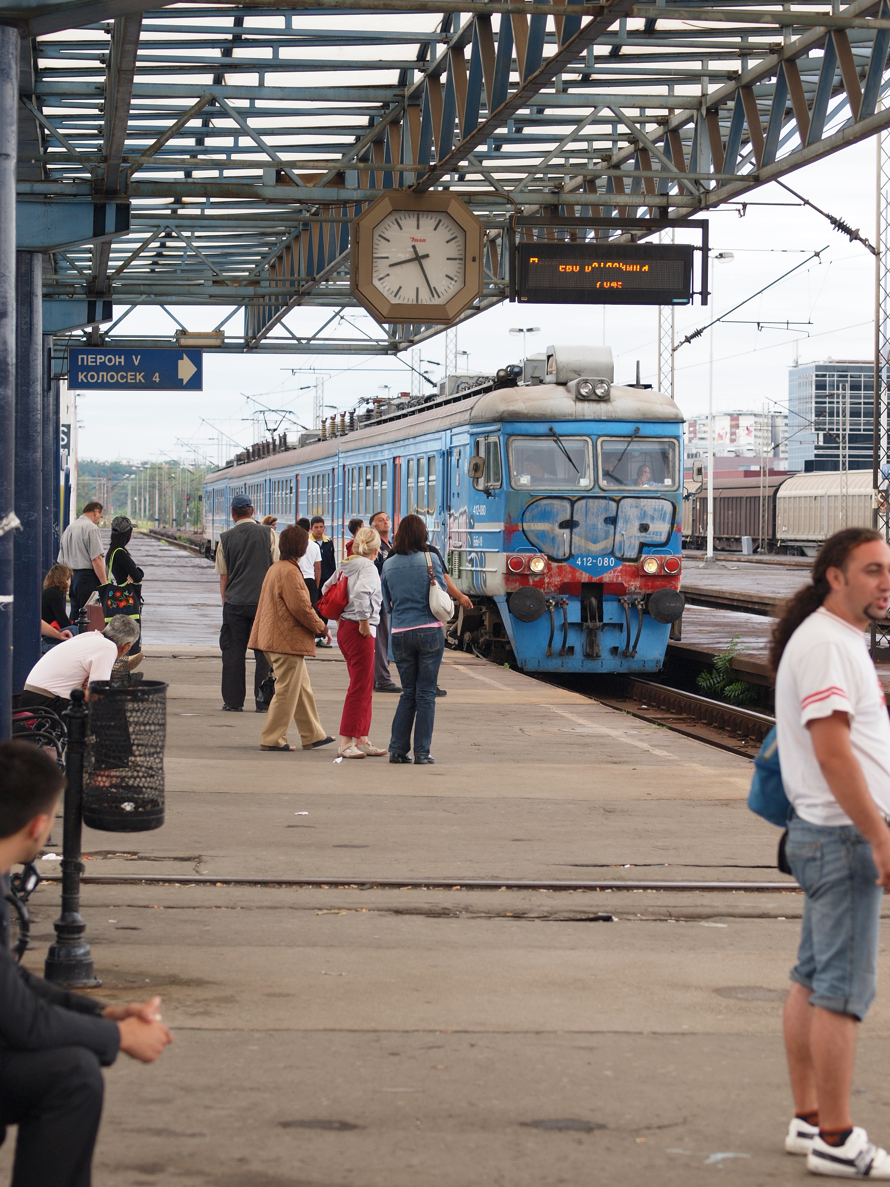 Beovoz Novi Beograd railway station